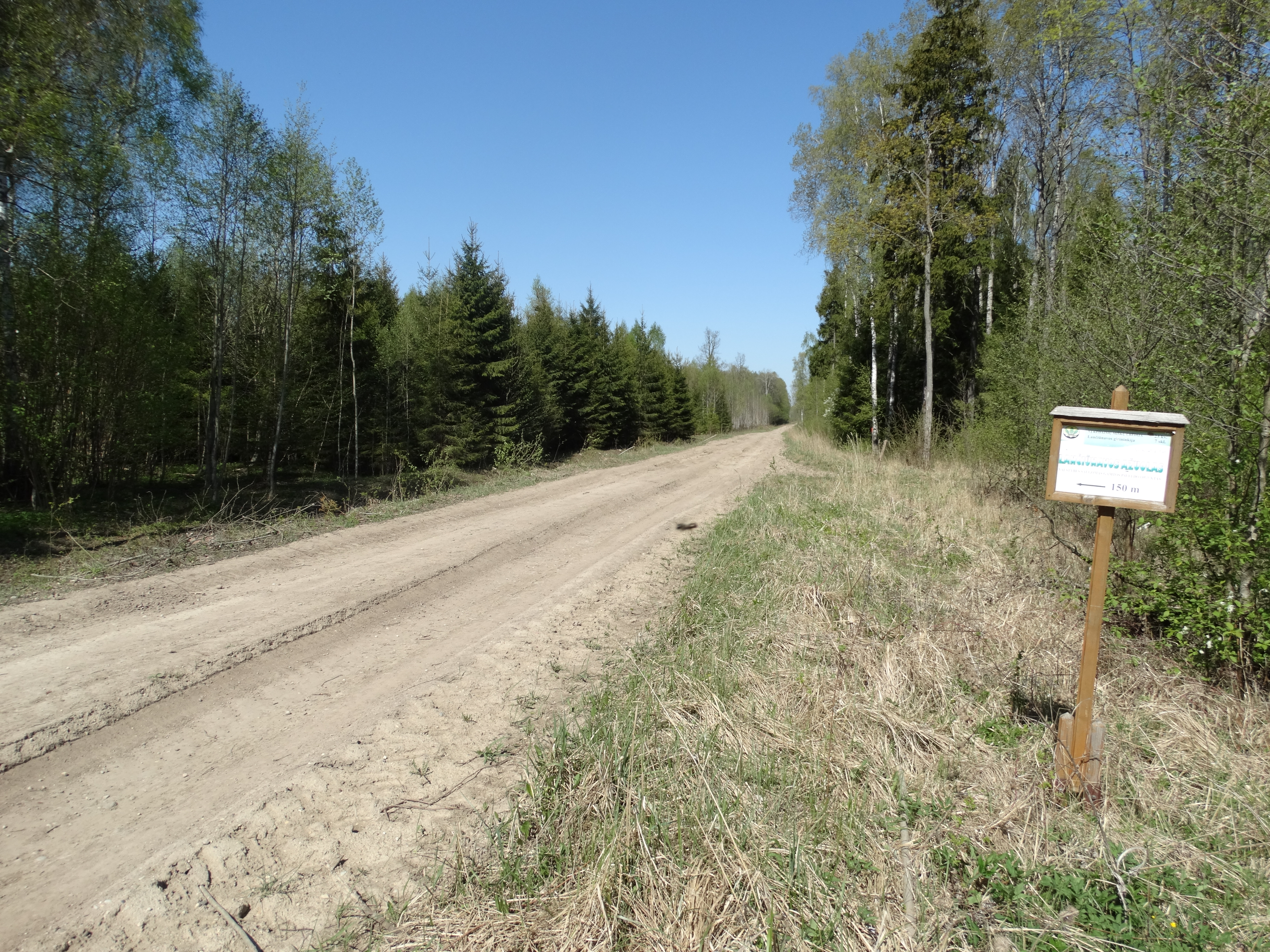 Road by Lančiūnava Oak, Kėdainiai District, Lithuania